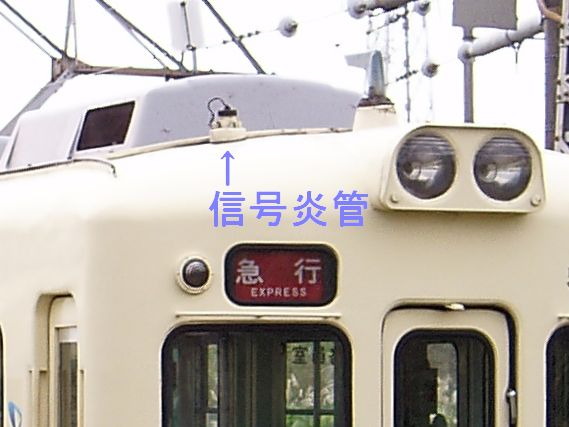 Emergency flare for Rolling Stock. (Odakyu Electric Railway Company, EMU Type 5000)